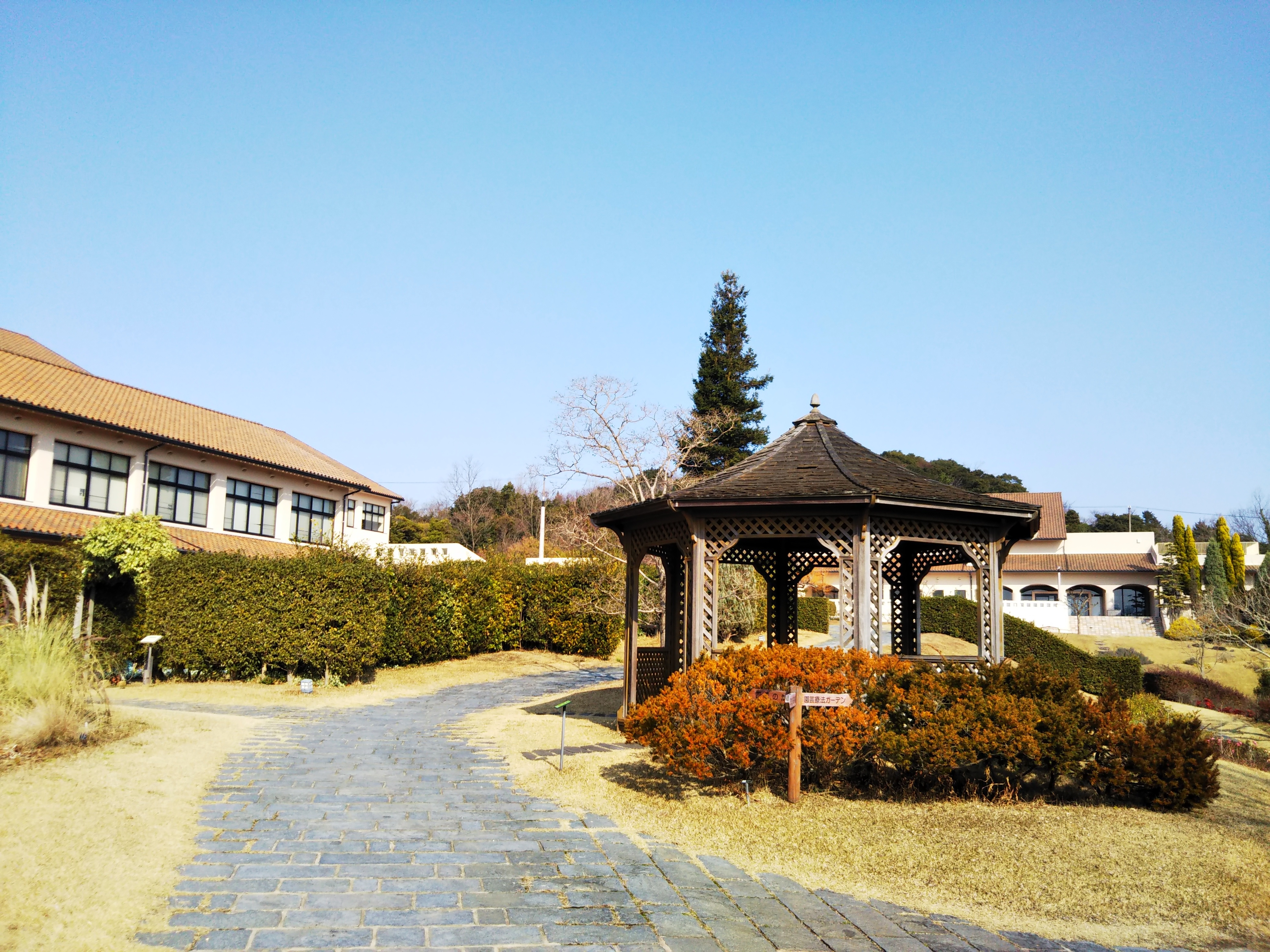 ALPHA Garden (area open to public) at Hyogo Prefectural Awaji Landscape Planning & Horticulture Academy (ALPHA) in Awaji, Hyogo, Japan.